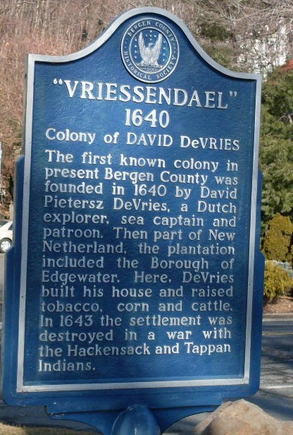 Edgewater, NJ Bergen County Historical Marker for Vriessendael farmlands[1]